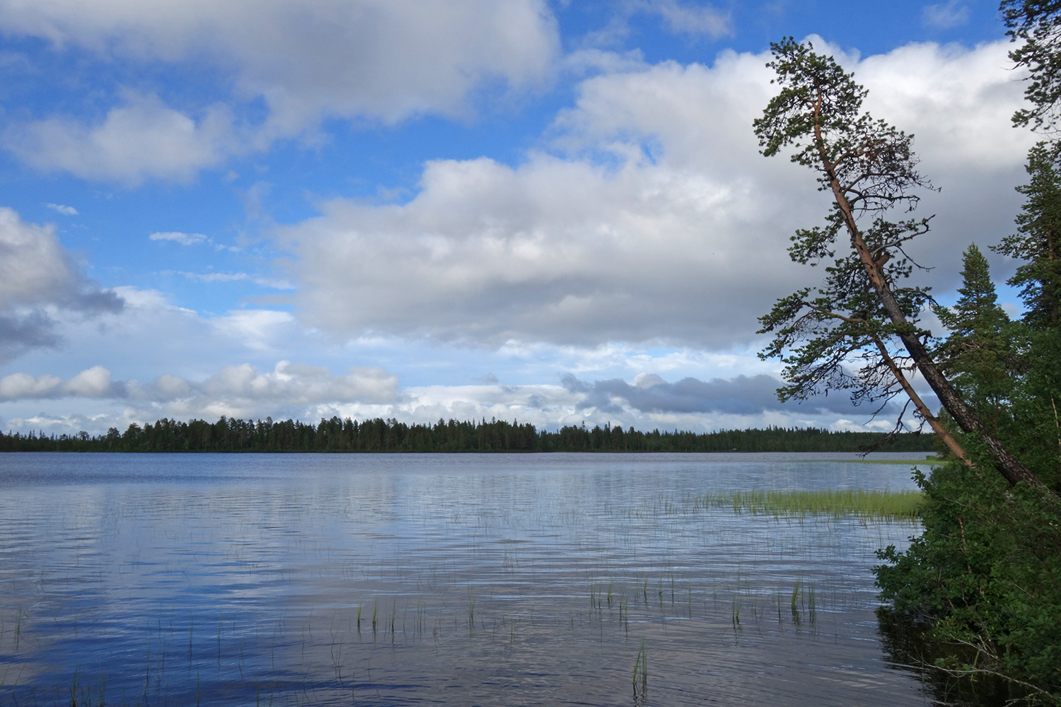 Kallokkajärvi, 8 km W of Vittangi in Kiruna Municipality, northern Sweden.